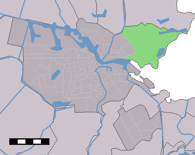 Location of neighbourhoods/districts in Amsterdam